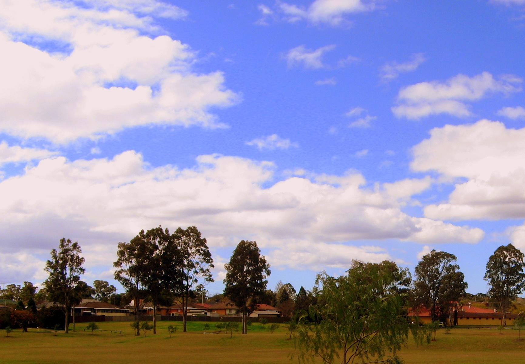 Representative view of South Penrith showing sparsely-treed open space in the foreground, and single-storey brick dwellings in the background. Vegetation is typical of the area, predominantly a mix of eucalypt species.